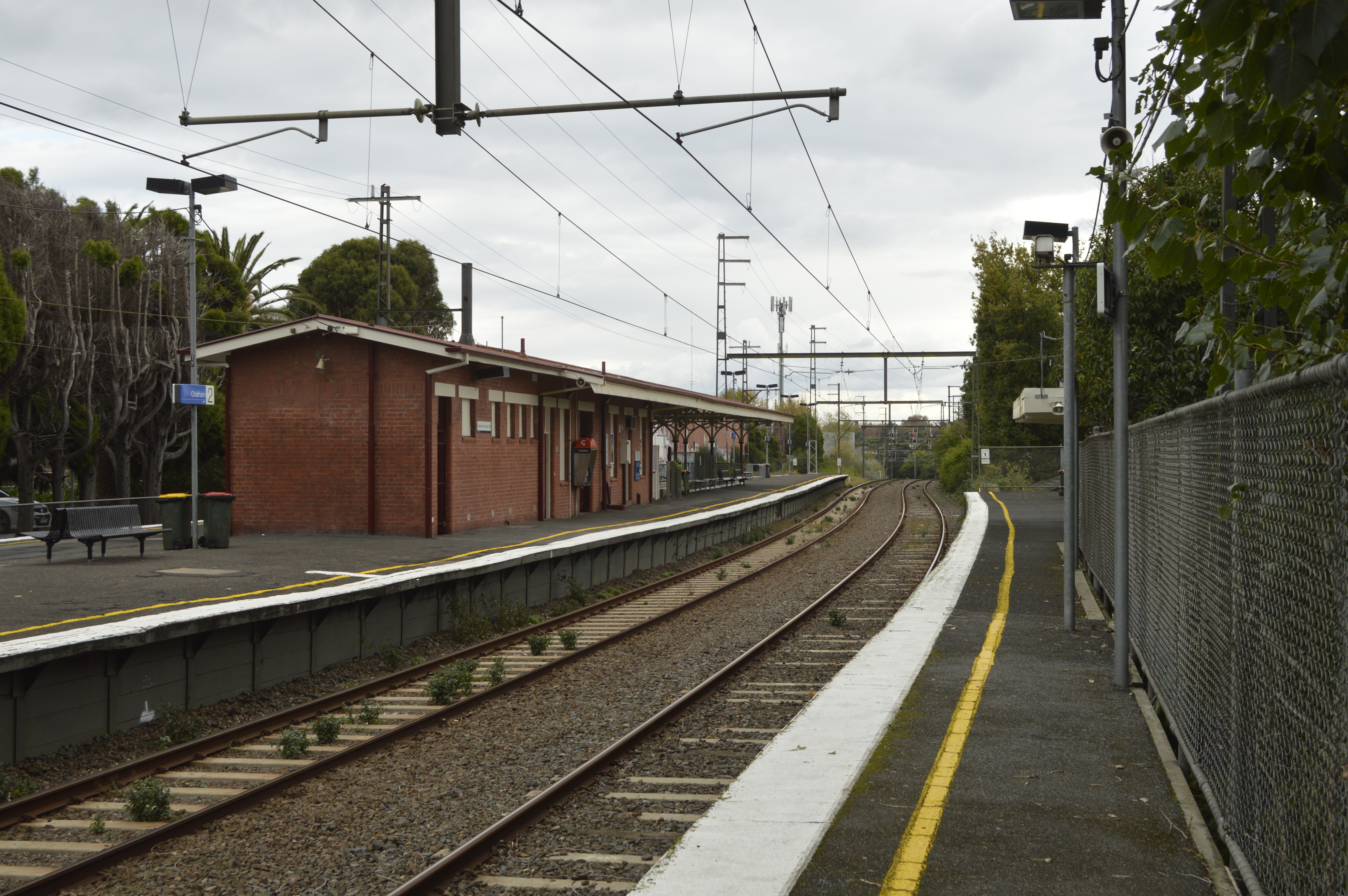 View from platform 3 looking west.